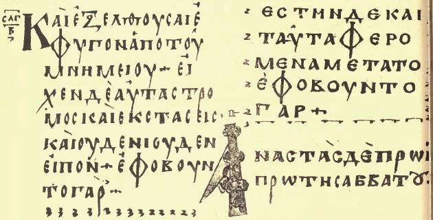 fragment of the manuscript "Codex Regius"